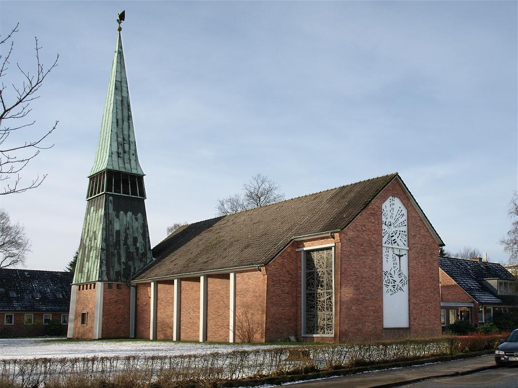 Tornesch (Schleswig-Holstein) - Jürgen-Siemsen-Straße 28 - Church - Year of construction: 1959/60 - Photo 2008 - The church of Tornesch is an Evangelical Lutheran church in Tornesch. It was built in 1959-1960 to a design by architect Günther Frank. The construction consists essentially of a rectangular nave with pitched roof, which has an incision in the altar area on both sides. Concrete windows and other brightly painted concrete elements loosen up the brick walls. The side windows are arranged by oblique cuts of the side wall so that their light falls to the altar. At the southwestern corner rises a more than 30 m high tower with a square floor plan. Object location53° 41′ 46.91″ N, 9° 42′ 29.03″ E